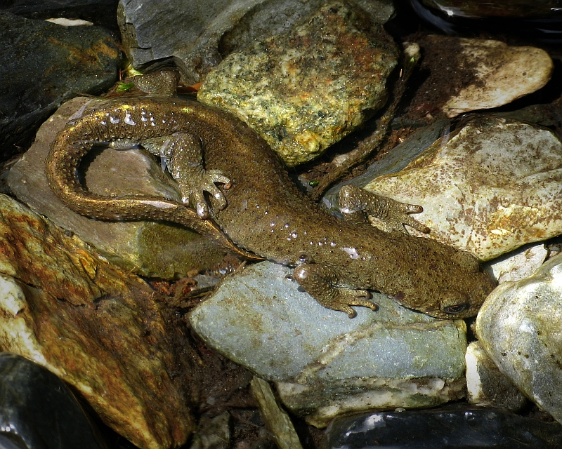 Euproctus asper